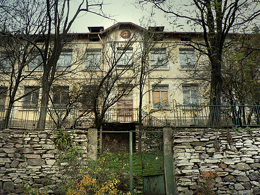 School "St. Cyril and Methodius" in Golema Rakovitsa village, Bulgaria